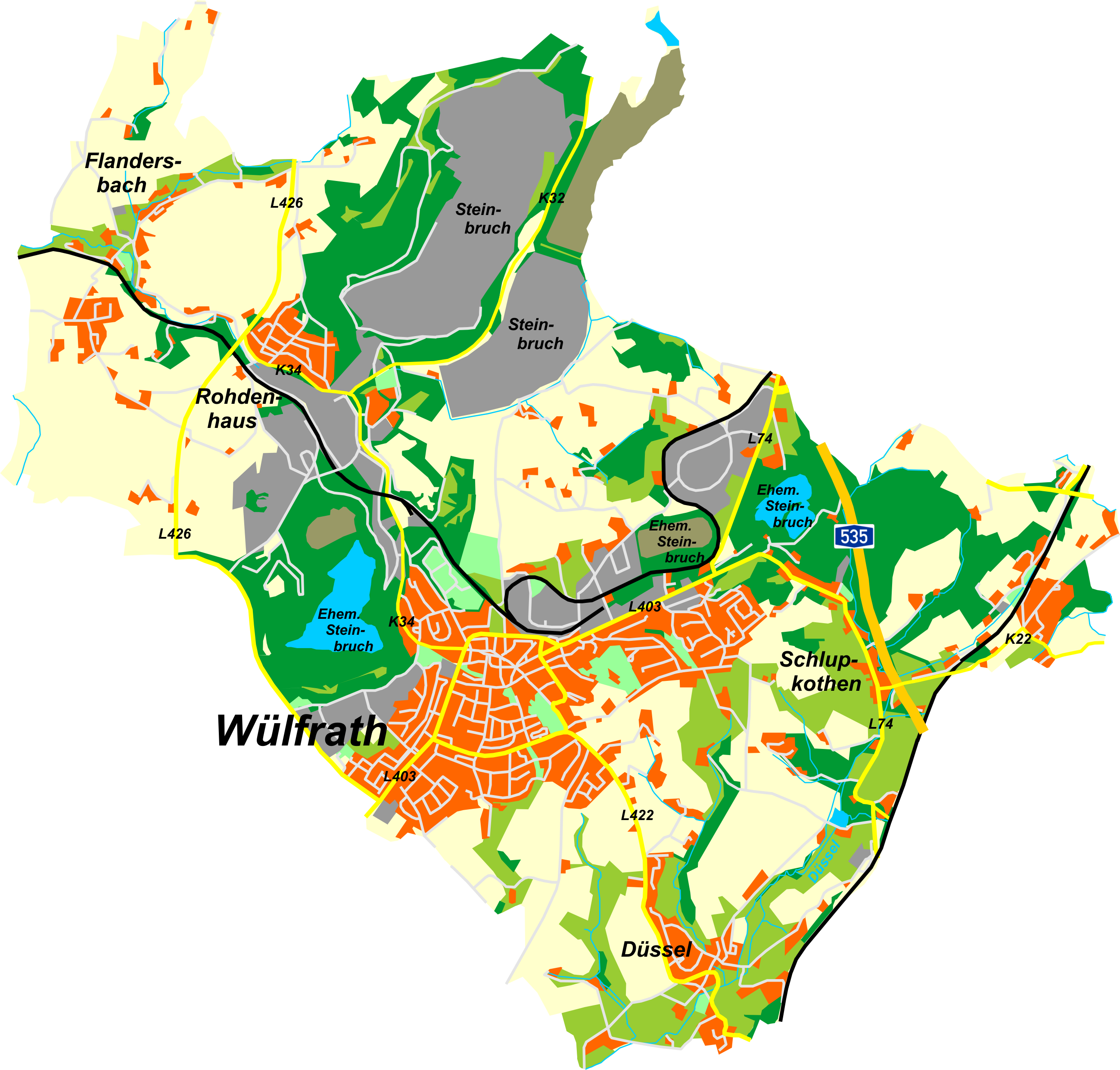 Map of Wülfrath, Mettmann District, Northrhine-Westfalia, Germany